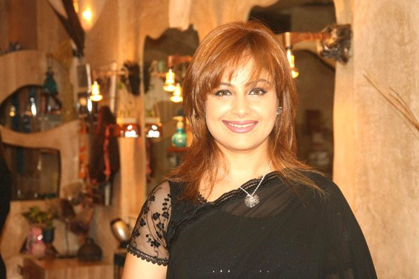 Ayesha Jhulka at the Opening of Ayesha Jhulka's Spa 'Nest'